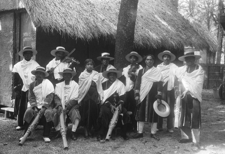 Hova band (Madagascar)